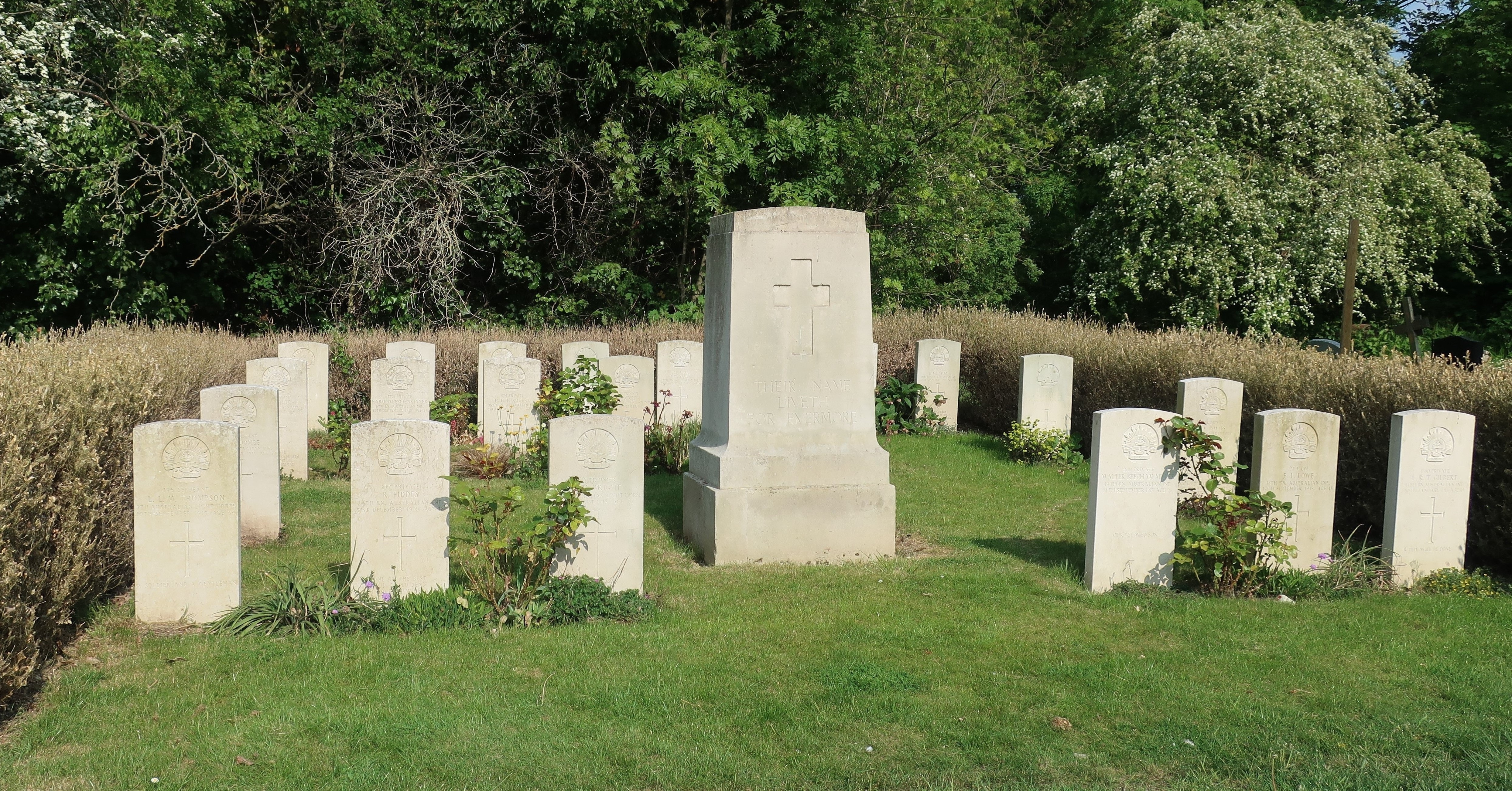 Enclosure of Commonwealth War Graves Commission headstones on graves of First World War Australian soldiers in Nunhead cemetery, London SE15